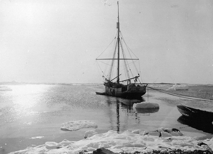 Alabama, the ship of the Alabama Expedition to Eastern Greenland 1909/1910, in her winter harbour at Shannon.